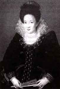 Jane Frances de Chantal, saint of the catholic church